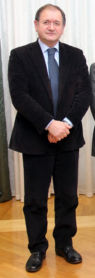 Rado Bohinc in 2011